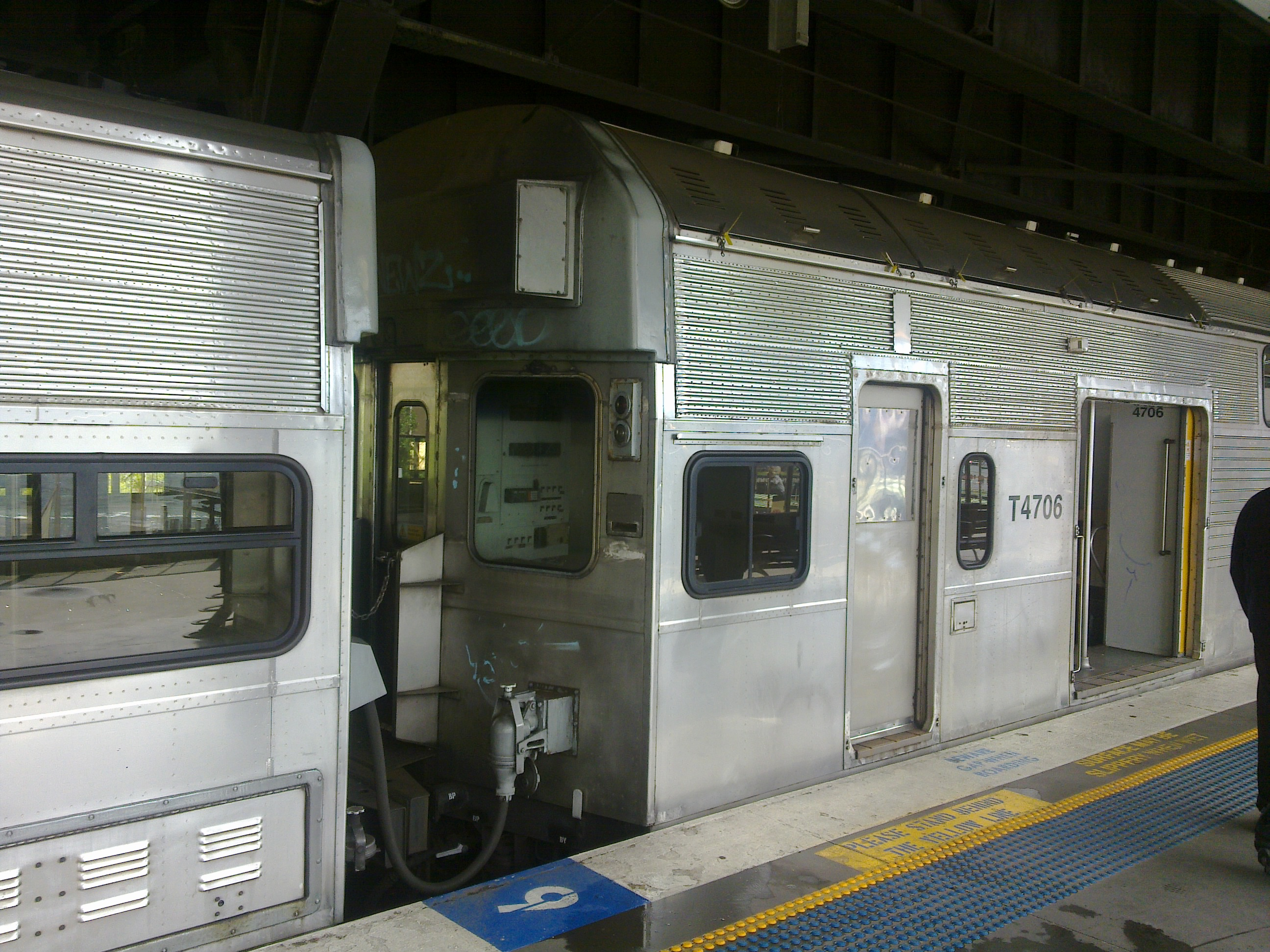 The exterior of a converted driving carriage.